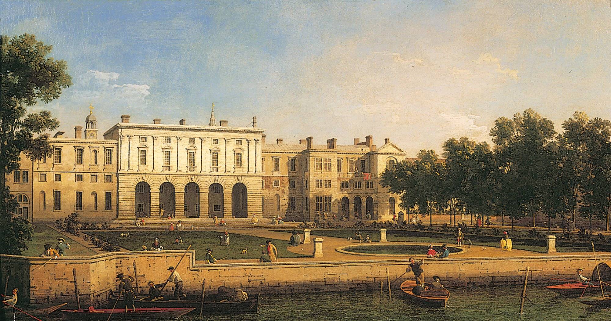 Old Somerset House from the River Thames by Canaletto, oil on panel, 57.8 x 109.2 cm.